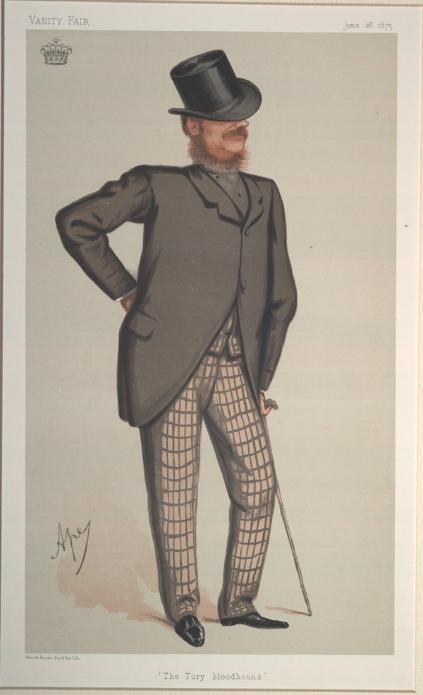 Statesmen No.207: Caricature of The Earl of Abergavenny. Caption reads: "The Tory bloodhound"